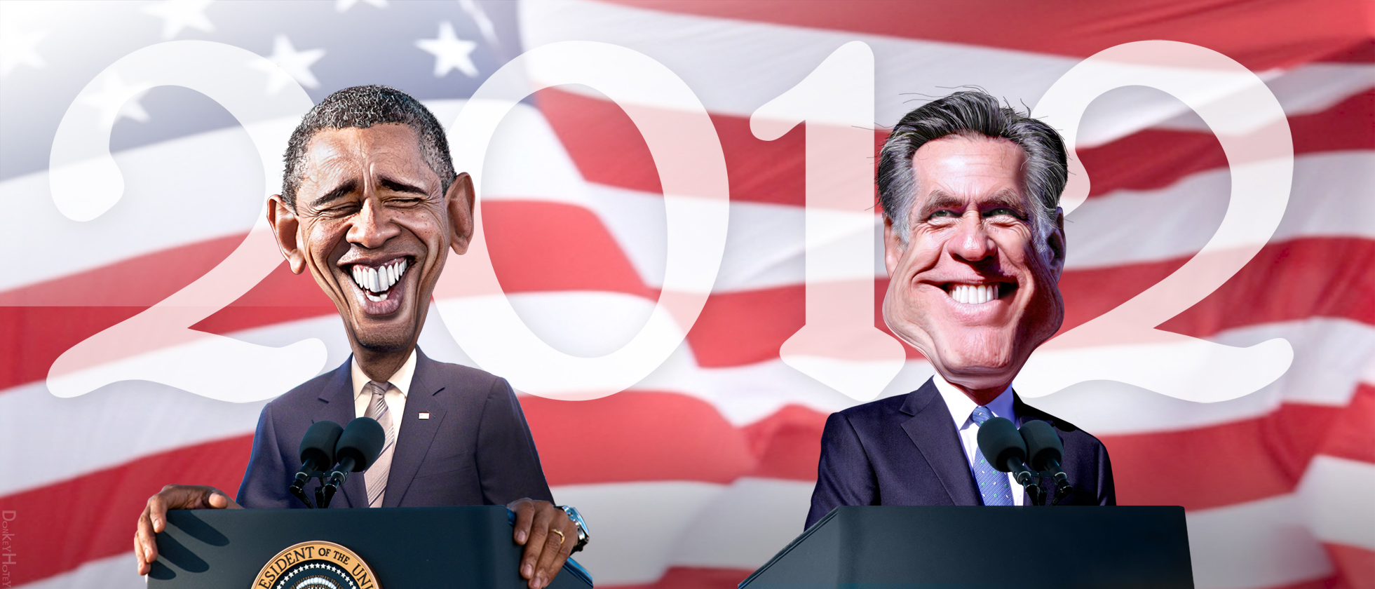 Barack Hussein Obama II aka Barack Obama is the 44th president of the United States of America. Willard Mitt Romney, aka Mitt Romney, is a former Governor of Massachusetts and is the presumptive Republican nominee for President in 2012. Source images are Creative Commons licensed photos: - Obama, from Intel Photos's Flickr photostream - Romney, from Gage Skidmore's Flickr photostream The background is a photo in the public domain from